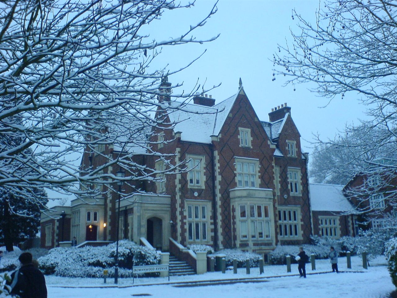 The Hollies, Sidcup